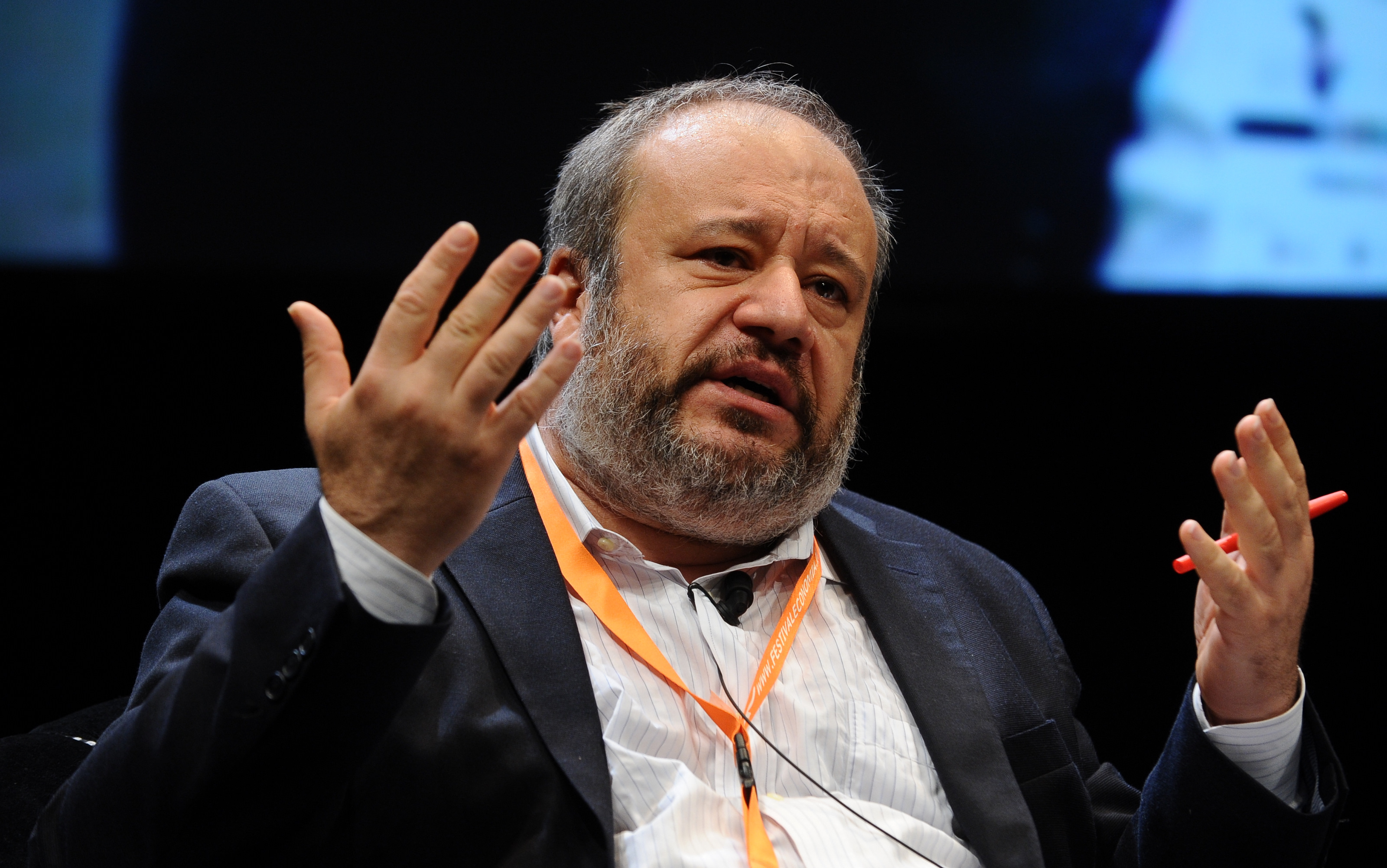 Festival of Economics 2012 - Trento